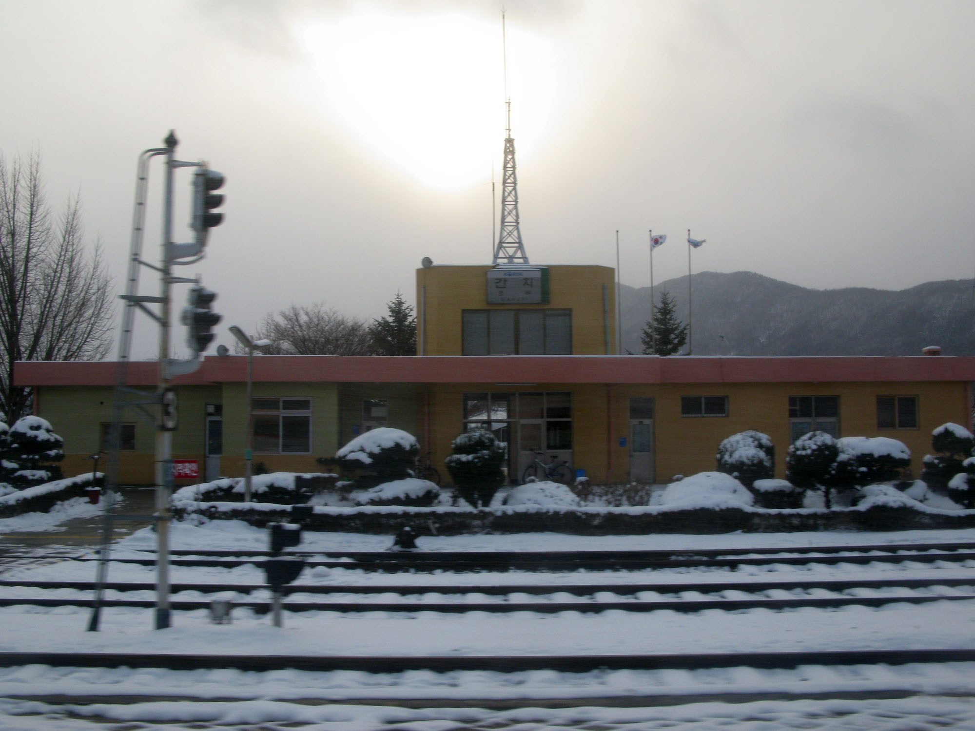 Seocheon Hwaryeok Line, Janghang Line Ganchi Station